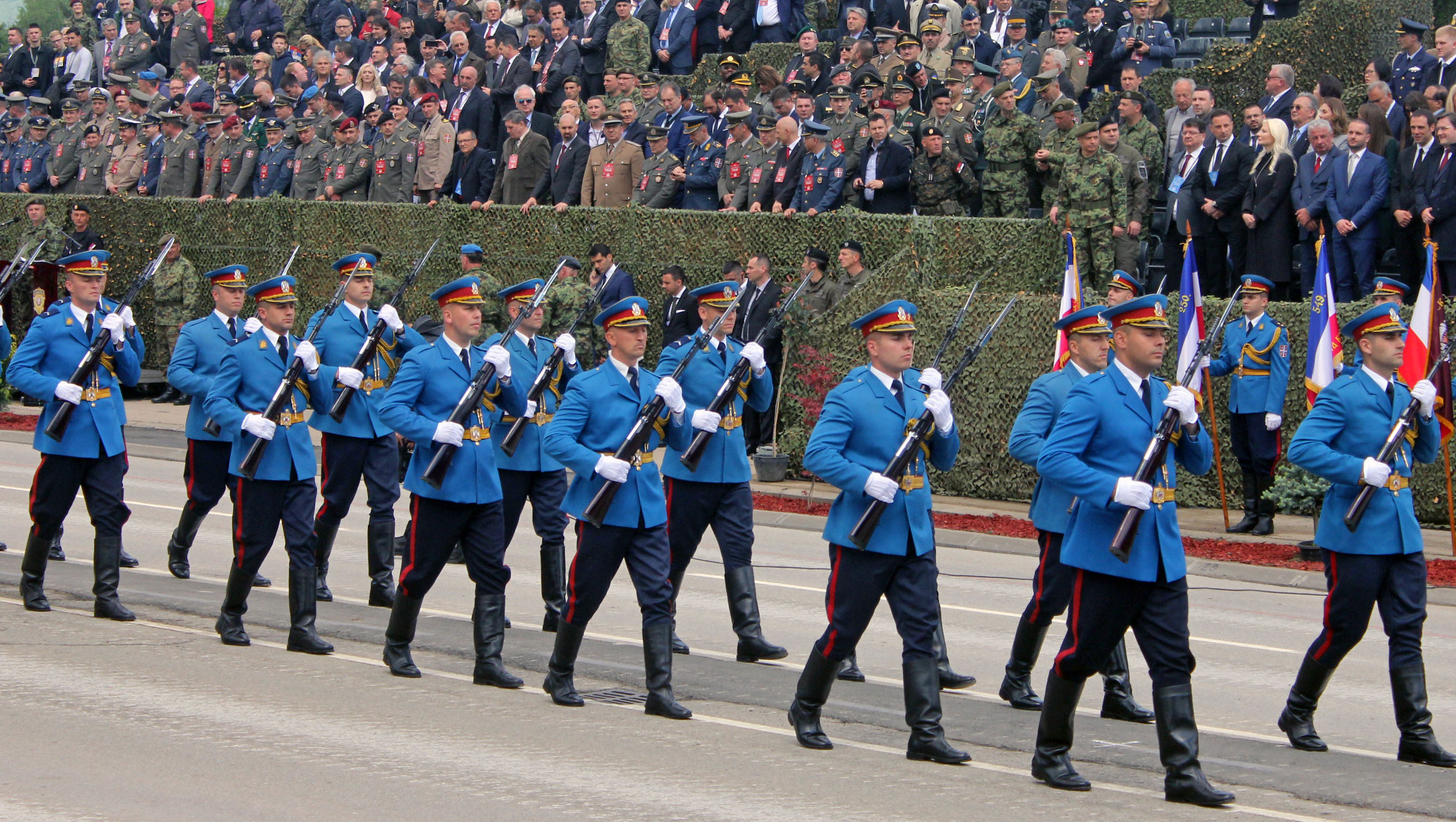 Serbian Army Guard at military parade in Niš.